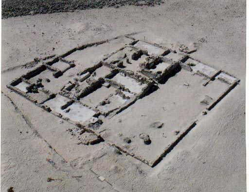 high point view of the archaeological site